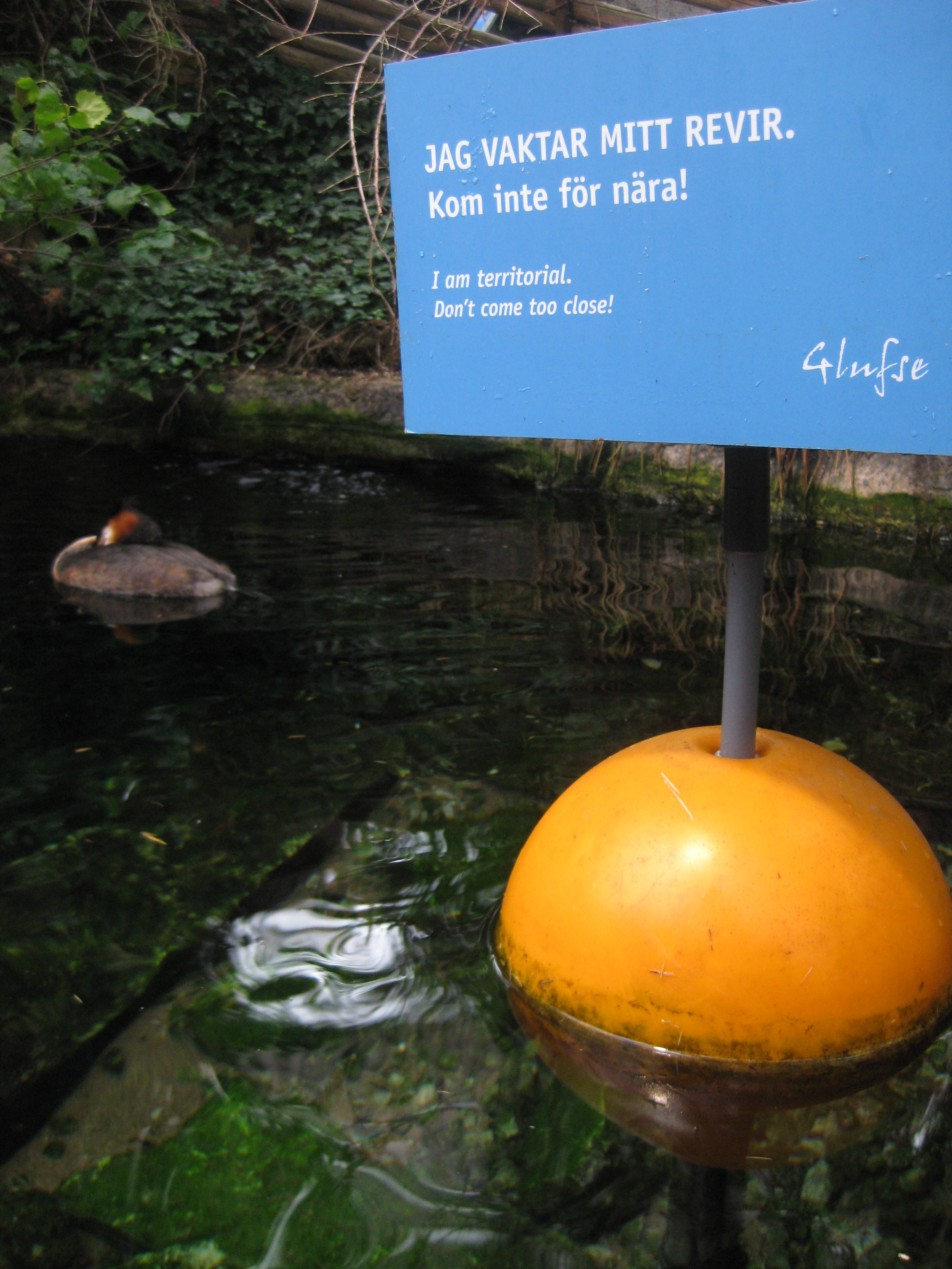 "I am territoral. Don't come too close!"